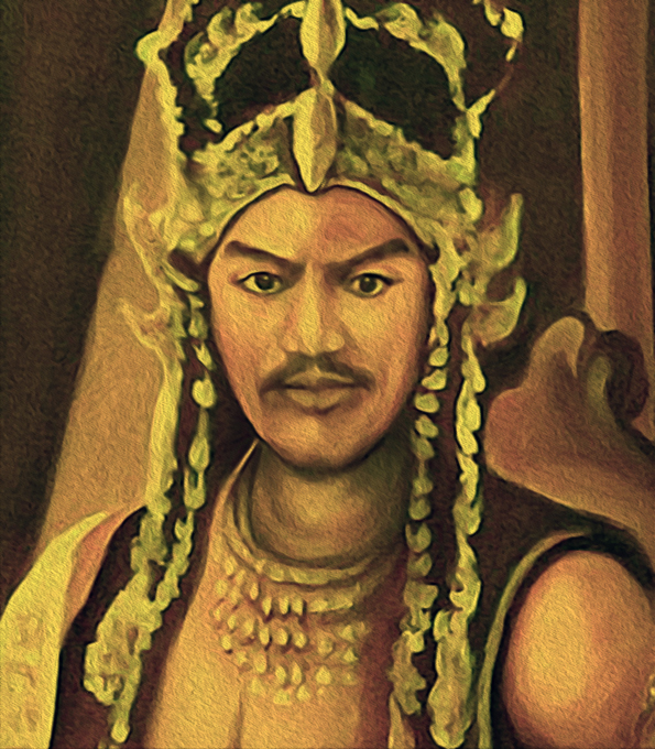 Artist impression and popular depiction of Prabu Siliwangi, King of Sunda Pajajaran kingdom. Painting is displayed in Keraton Kasepuhan, Cirebon, West Java.